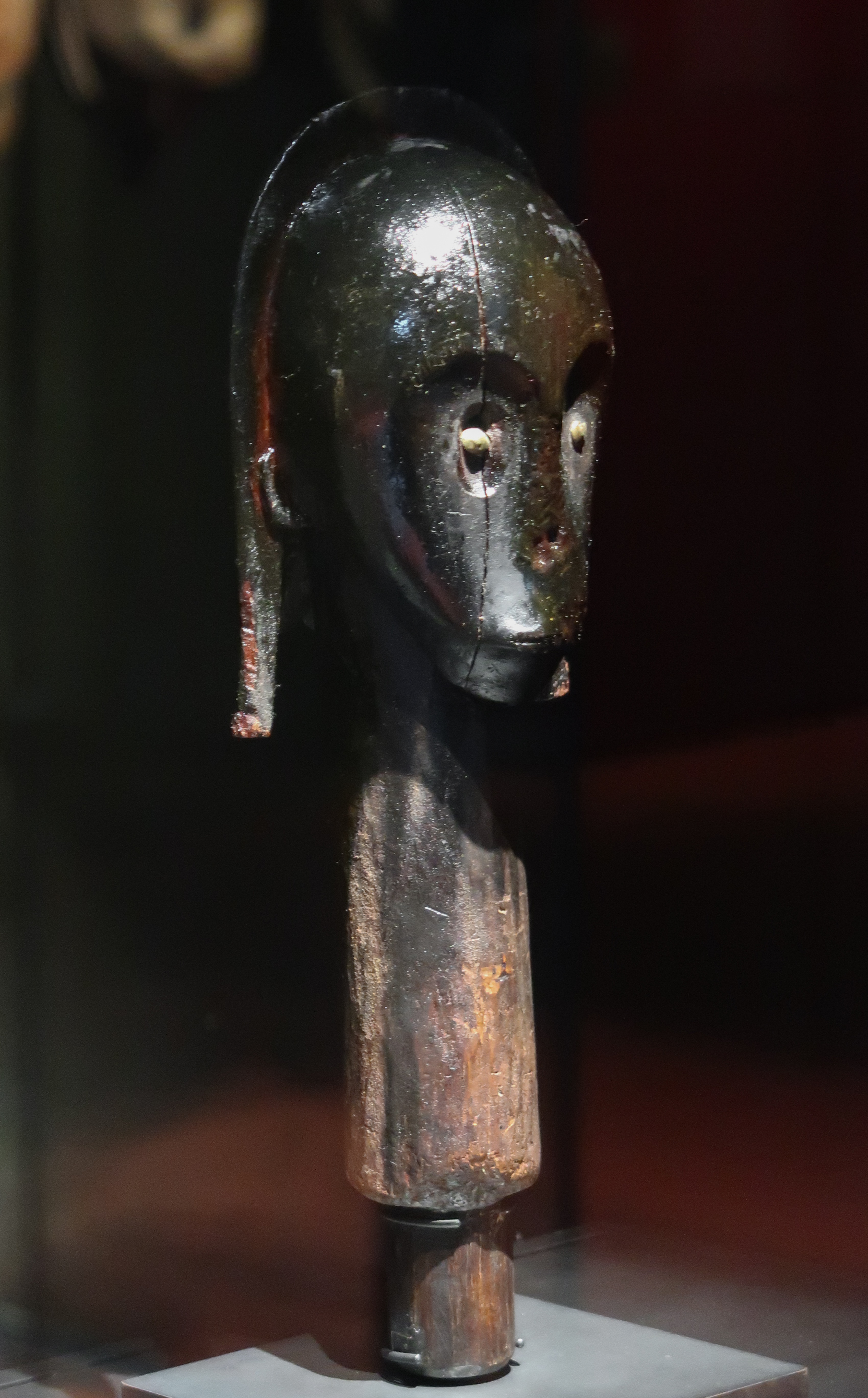 Head from a reliquary ensemble, nlo byeri. Fang peoples. The Republic of Gabon. 19th century. Wood, copper, oozing patina. 41.5 x 14 x 11 cm. Provenance: Paul Guillaume (1891-1934). Paris, Musée du quai Branly - Jacques Chirac